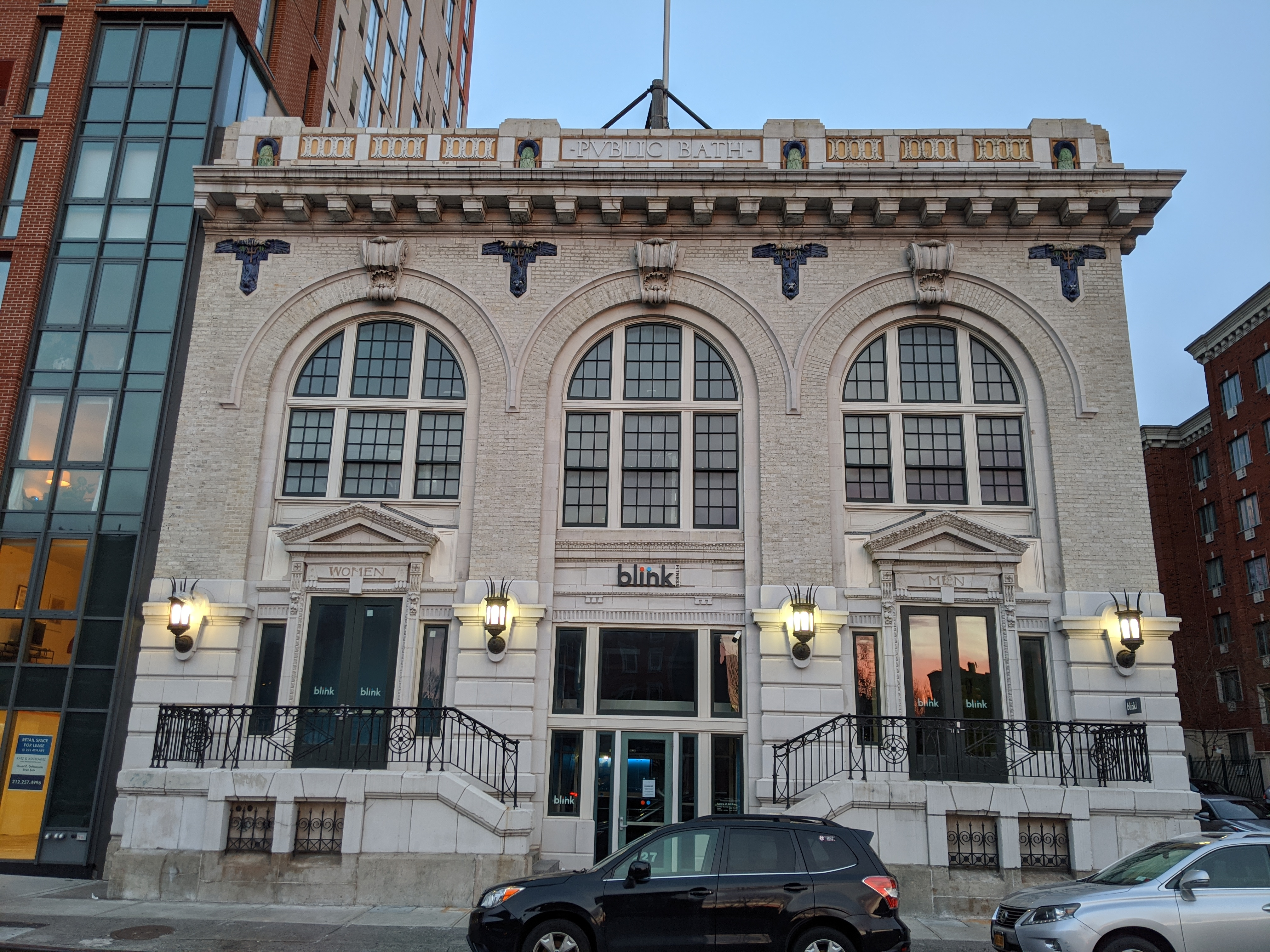 A photo of Public Bath No. 7 in Brooklyn on April 2, 2020.